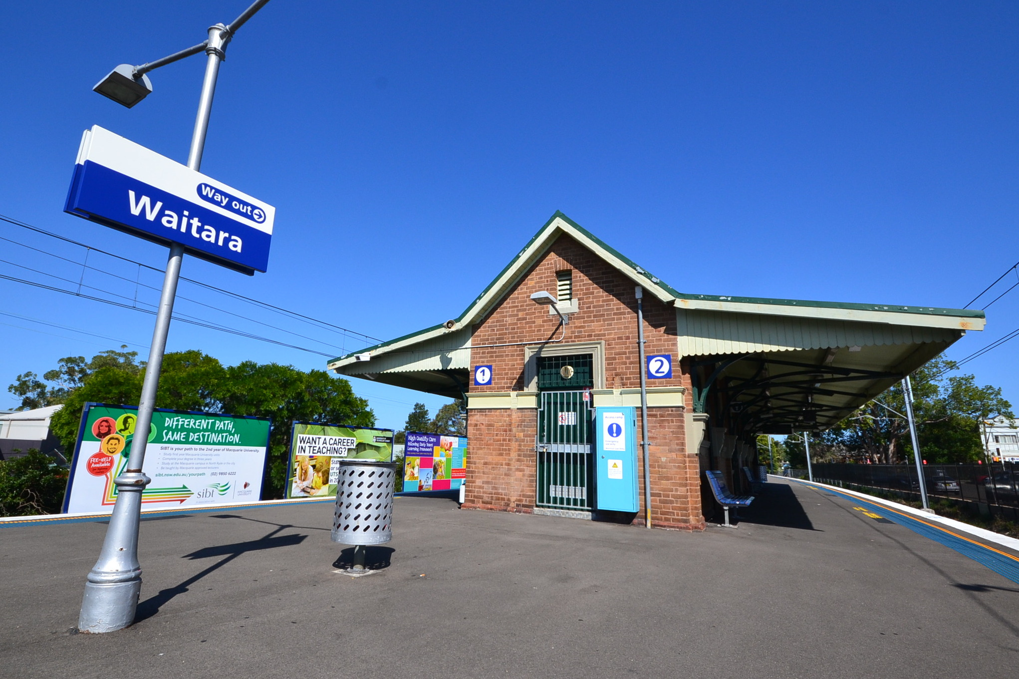 Waitara Station, Sydney